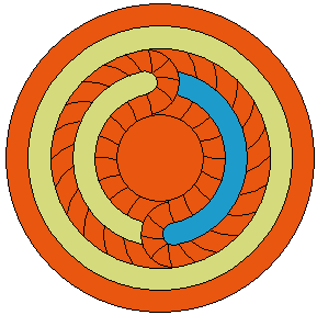 Shield pattern of the Undecimani, a legiones palatina under the command of the Magister Militum Praesentalis II.